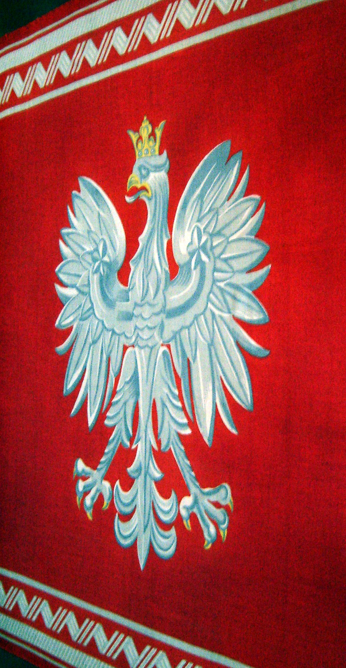 Banner of the Republic of Poland, used as insignia of presidential authority by pre-war and in-exile presidents of Poland. Currently on display in the Royal Castle in Warsaw.